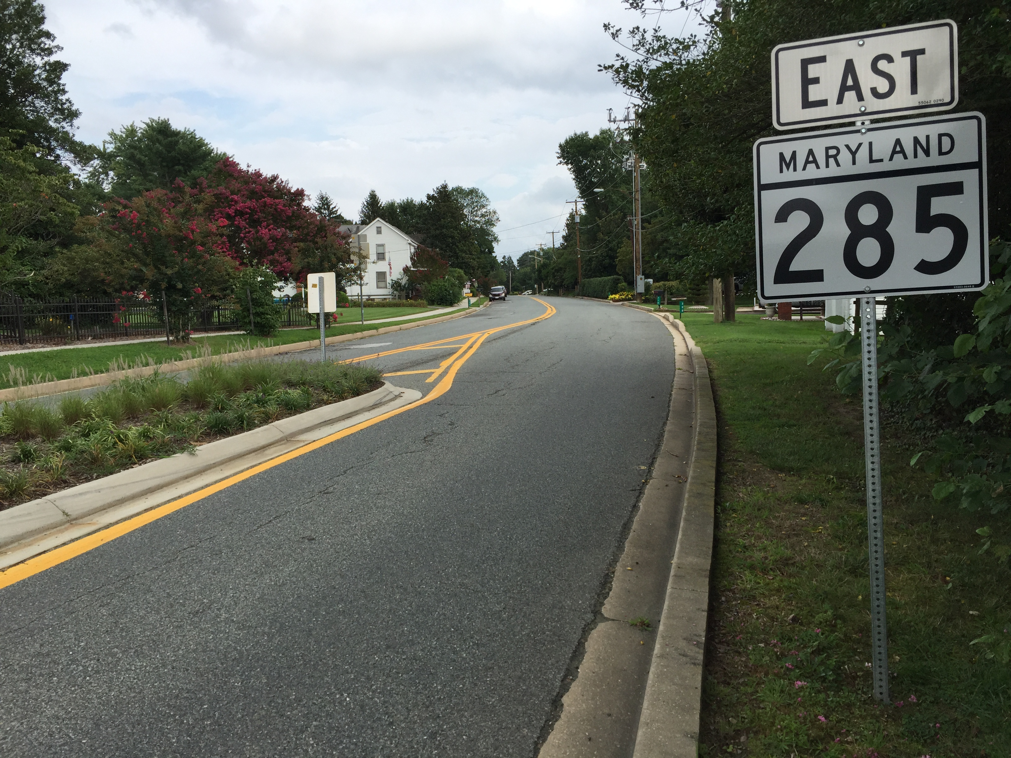 View east along Maryland State Route 285 (Biddle Street) at Lock Street in Chesapeake City, Cecil County, Maryland